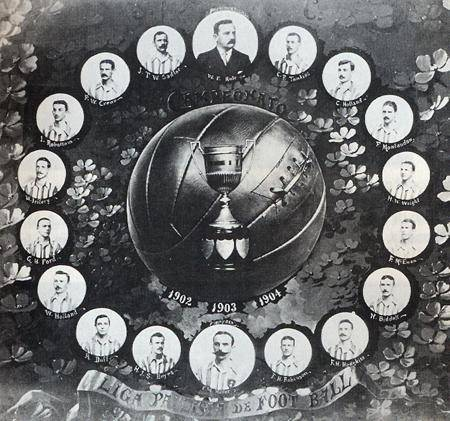 Poster of the São Paulo Athletic Club roster, ca. 1904.